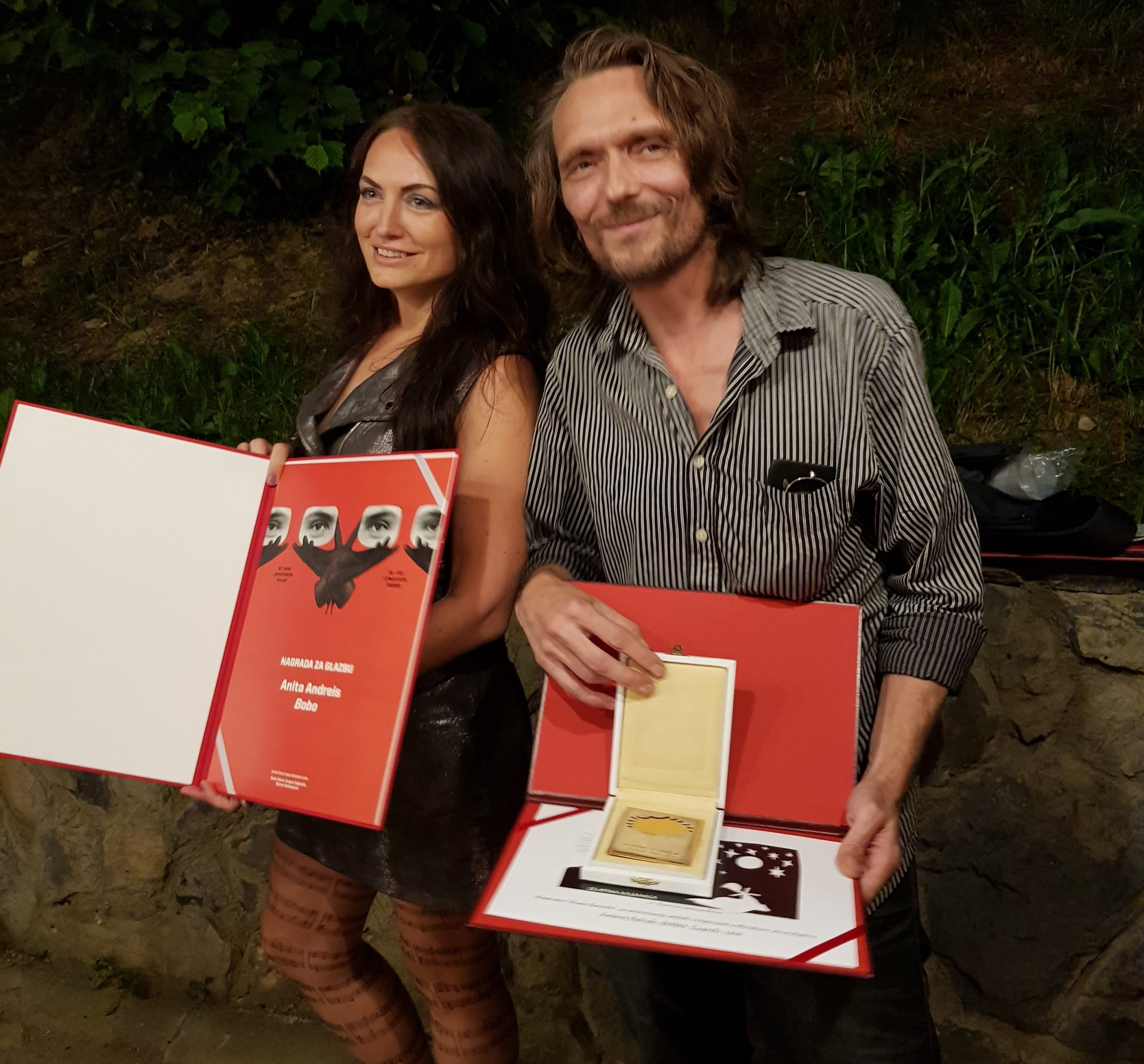 Composer Anita Andreis with director Andrej Rehak on 27th Days of Croatian Film Awards